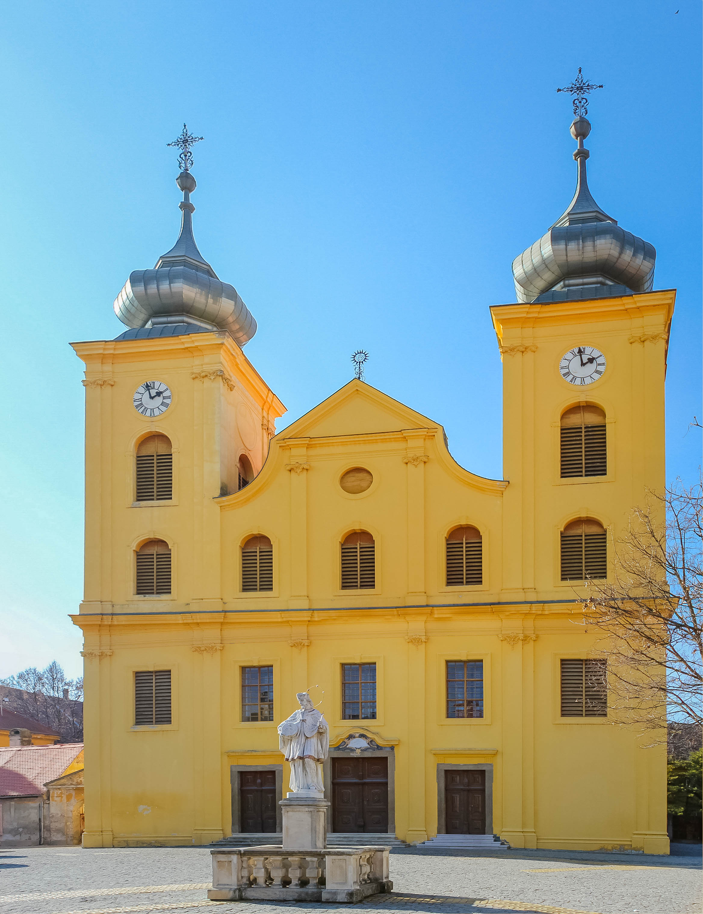 Church